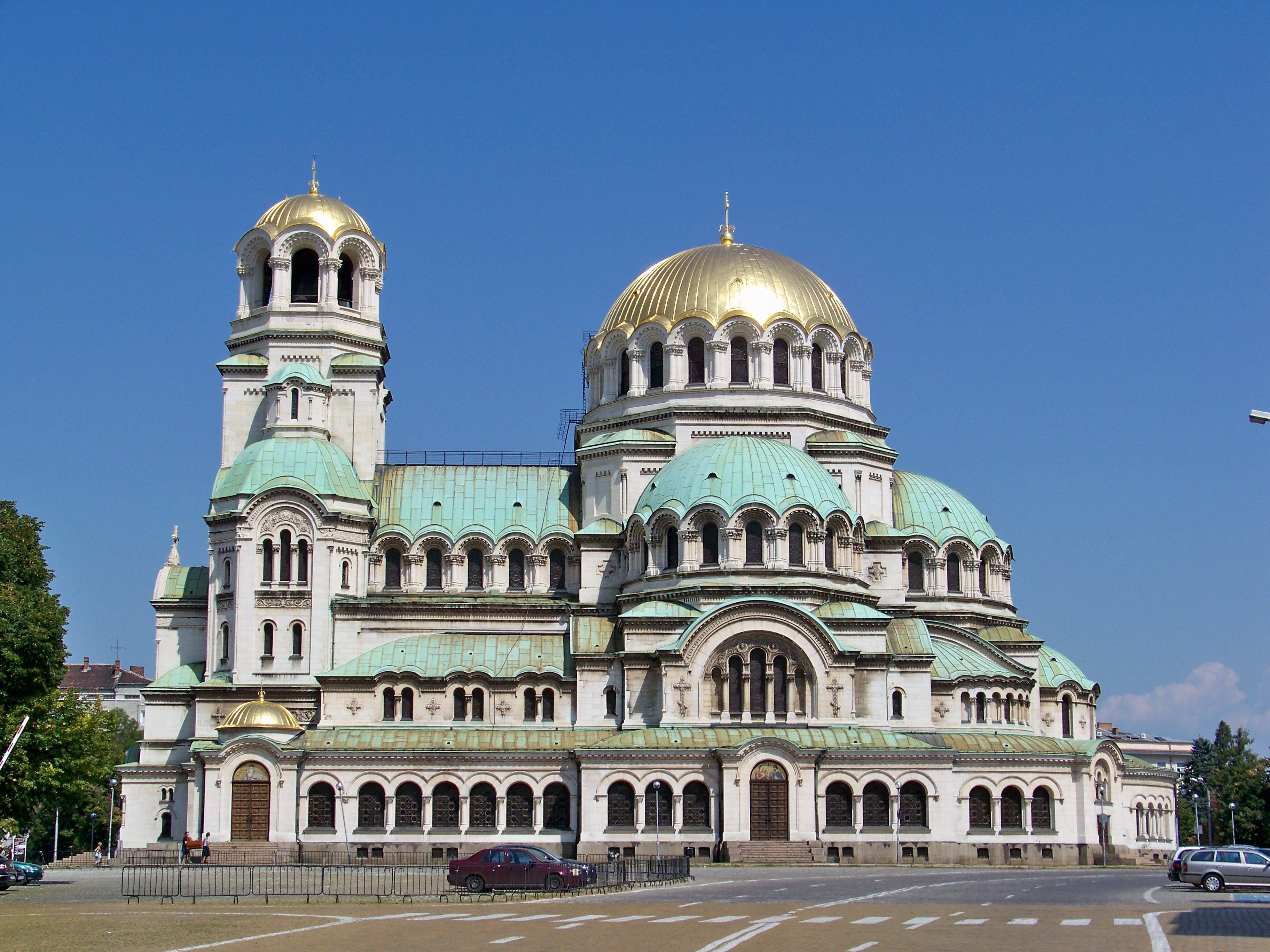 The St. Alexander Nevsky Cathedral is a Bulgarian Orthodox cathedral in Sofia, the capital of Bulgaria.